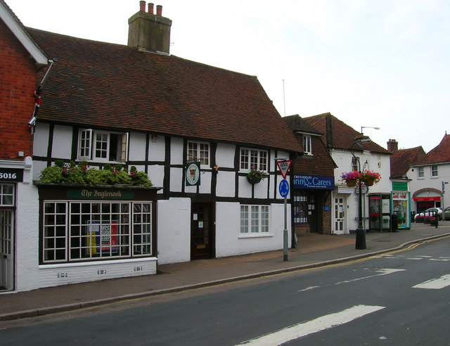 Fleur de Lys, Market Street, Hailsham. The building dates from around 1540 and was originally an inn. It has also been the town's poorhouse, a butchers, confectioners and numerous other shops. Today it is home to Hailsham Town Council.